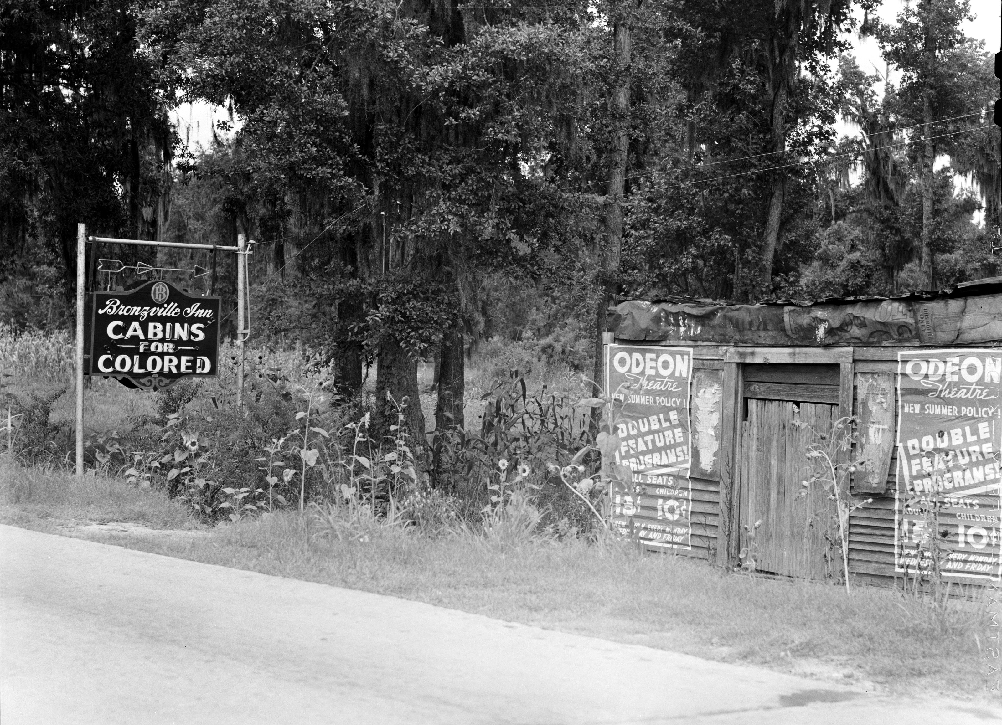 "A highway sign advertising tourist cabins for Negroes." [Sign: "Cabins for Colored."] South Carolina.